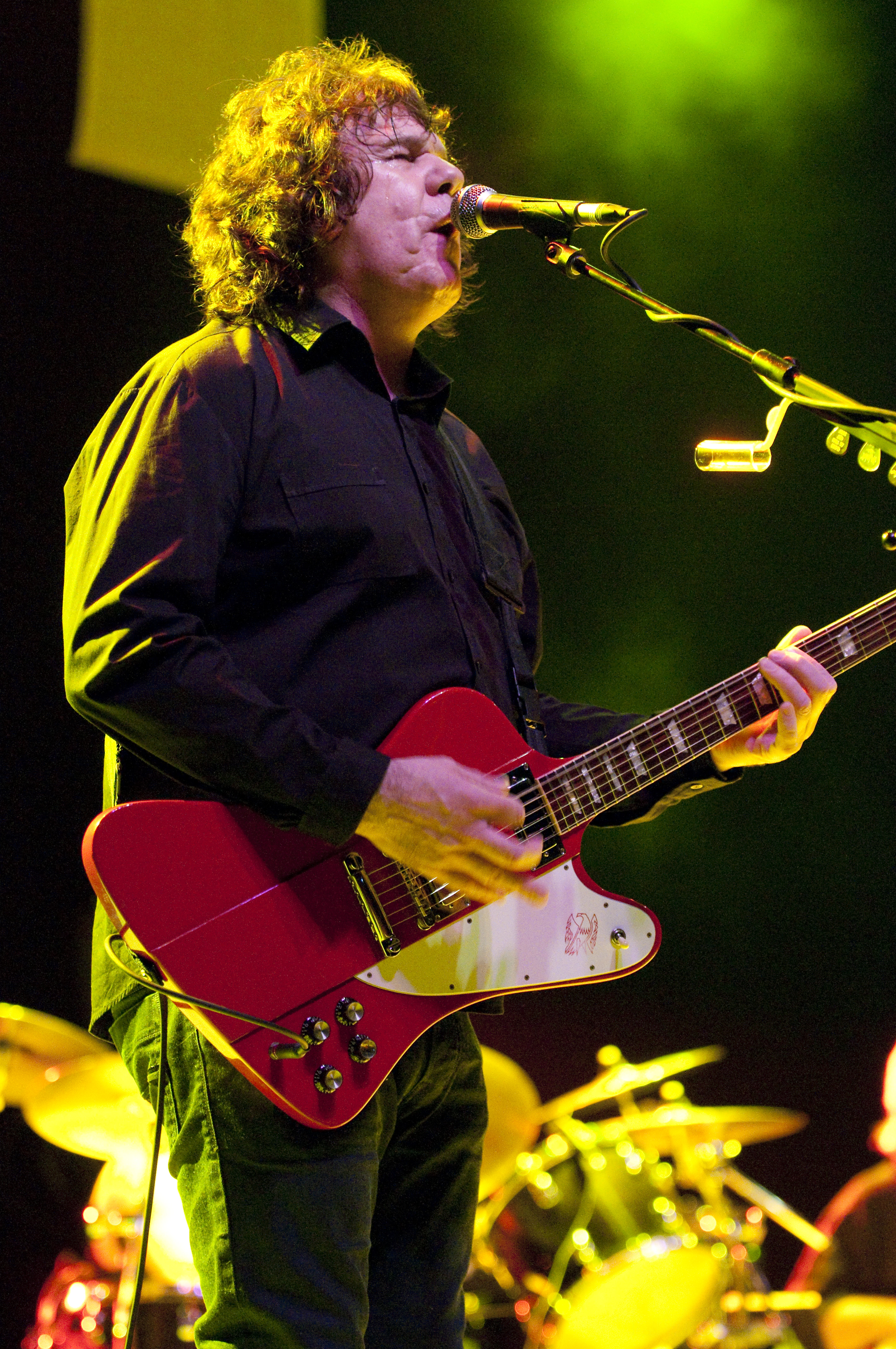 Gary Moore